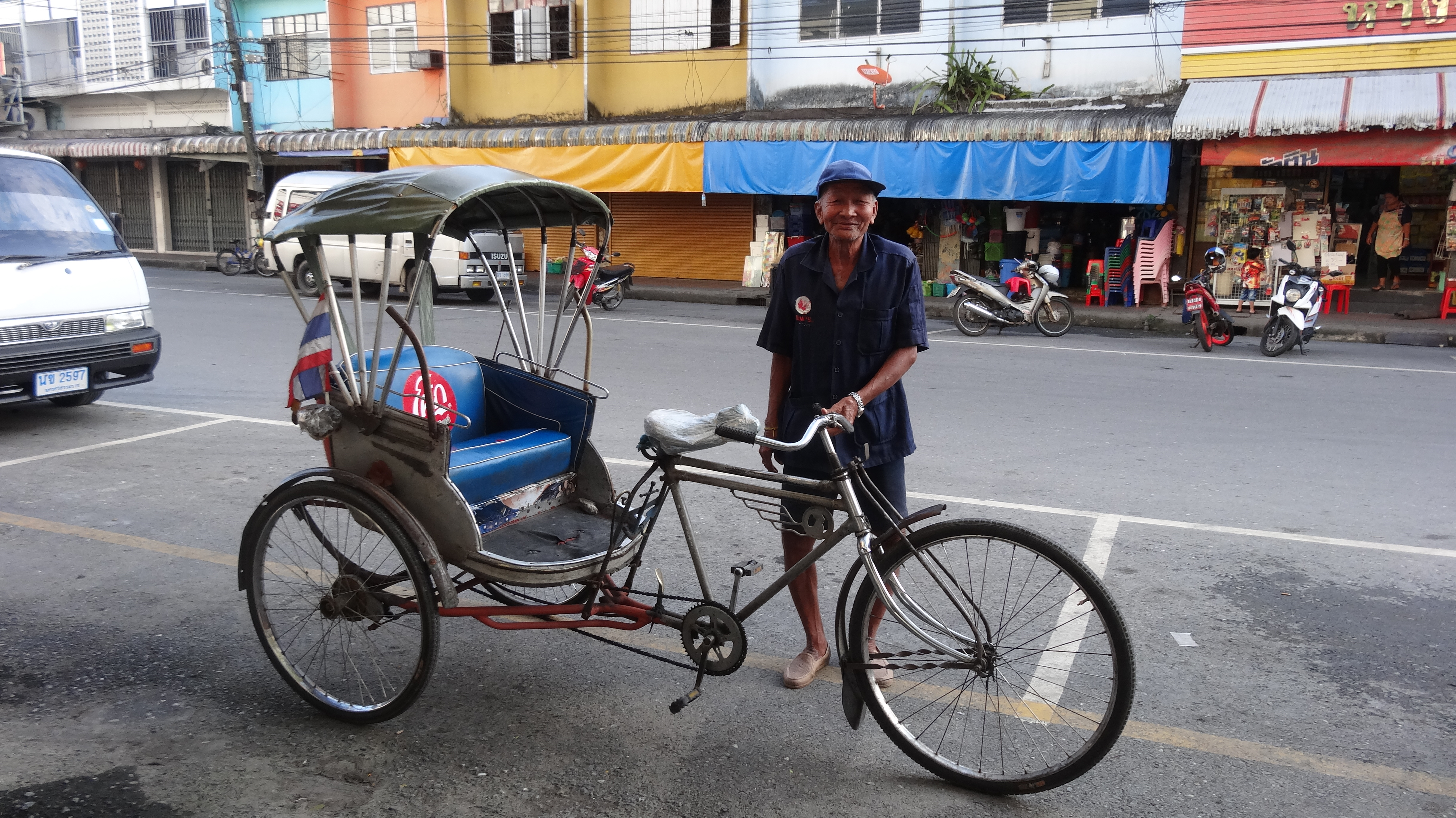 Rickshaws in Nakhon Si Thammarat Thailand